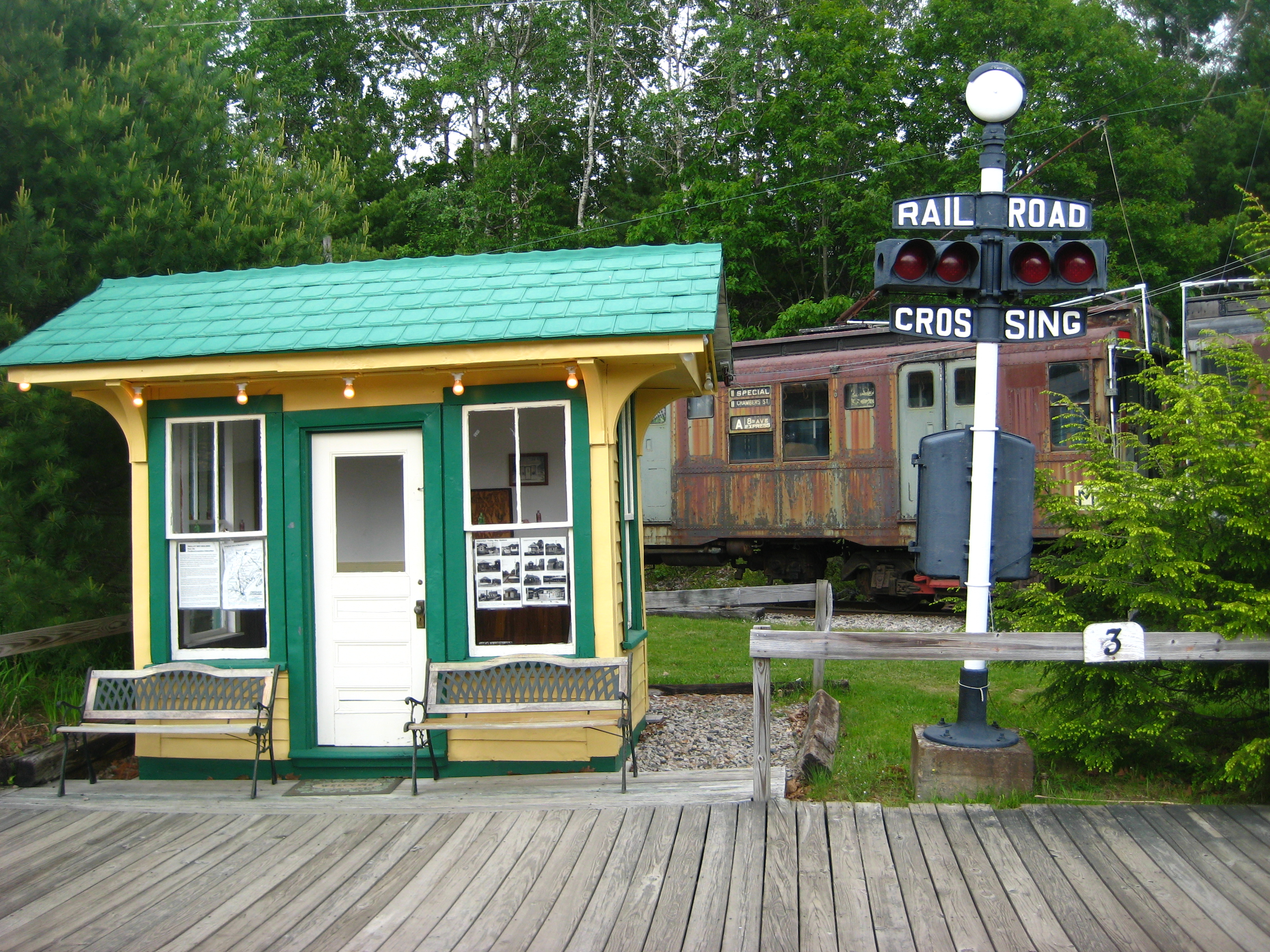 The former Morrison Hill station of the Portland-Lewiston Interurban at Seashore Trolley Museum in May 2010